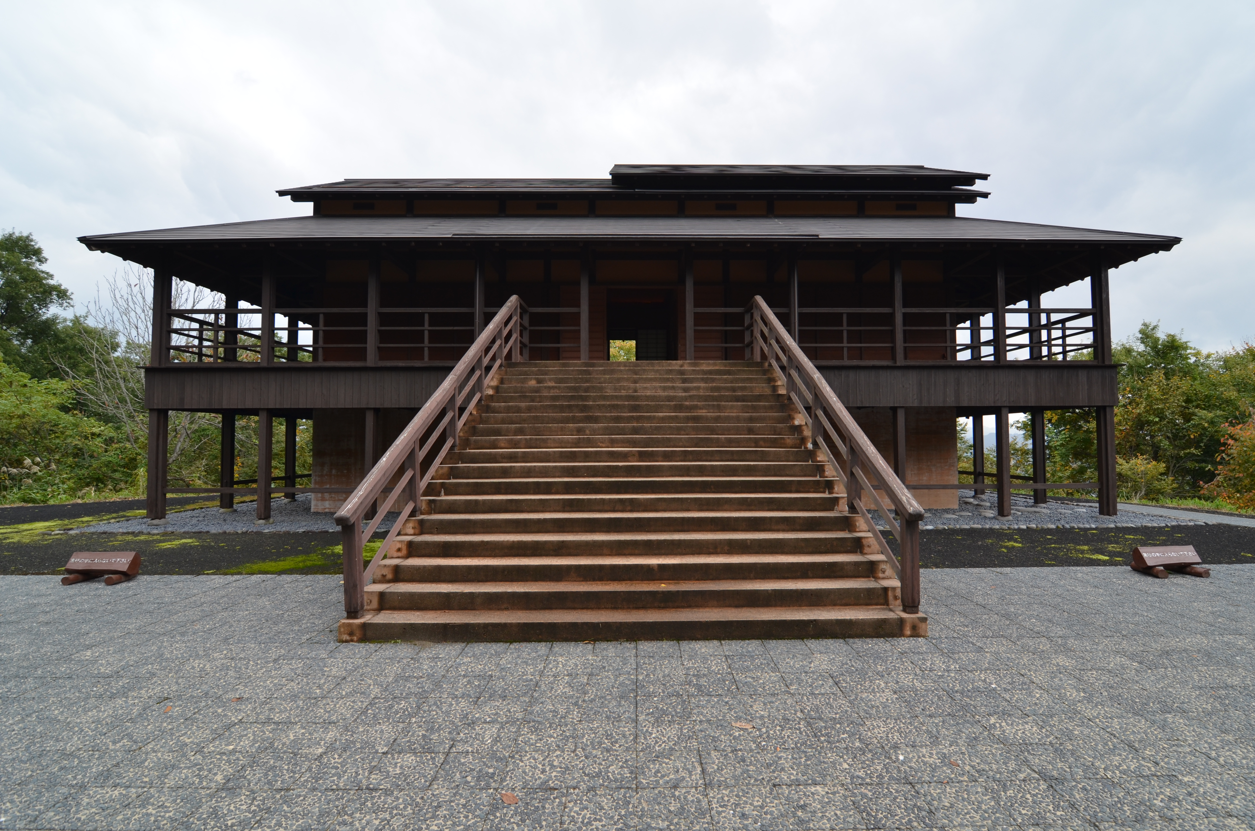 The outside view of House of Light by James Turrell.